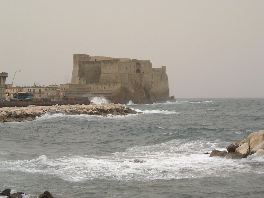 Egg Castle in Naples.